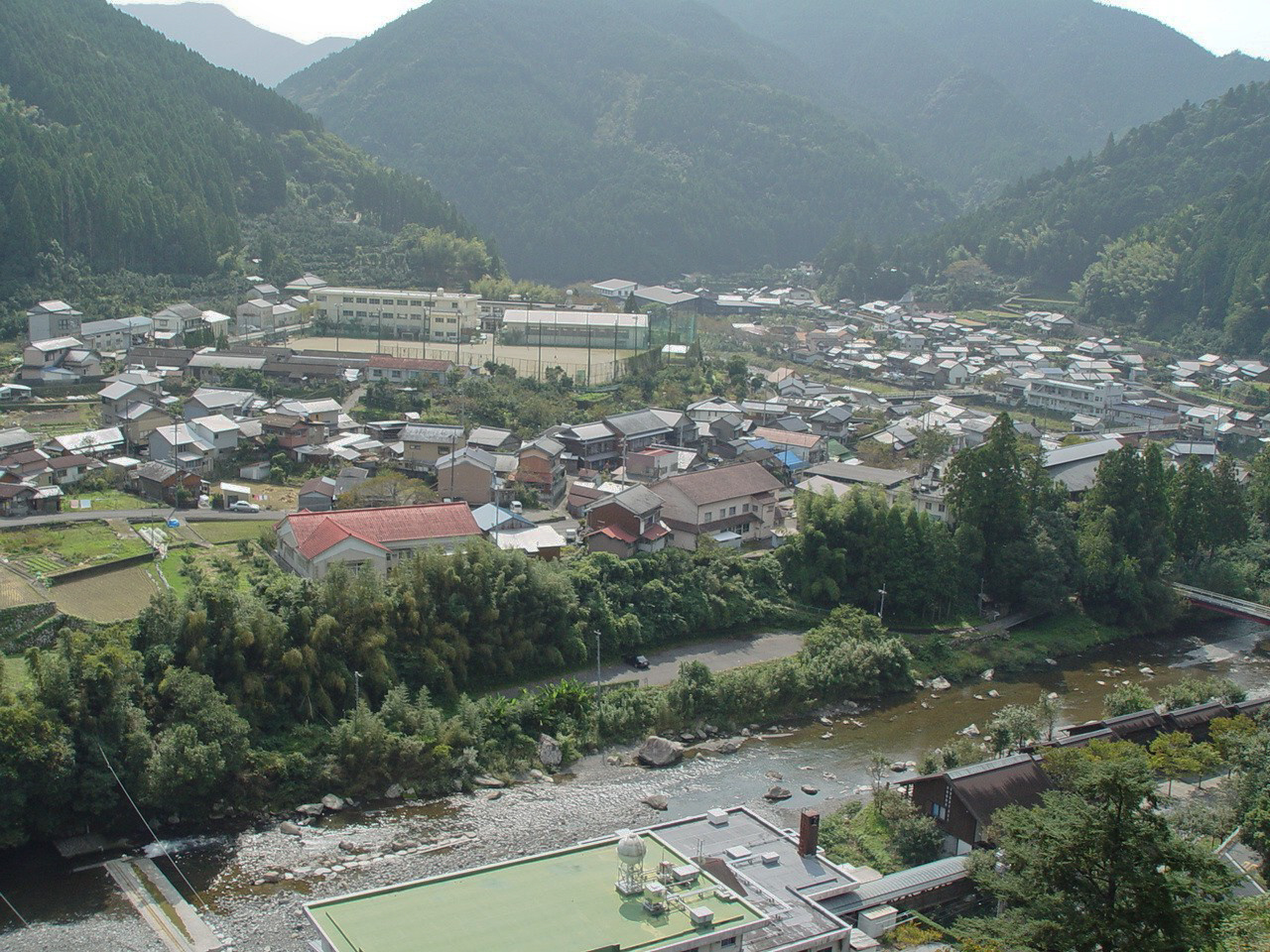 A view of Umaji, Kochi, Japan.